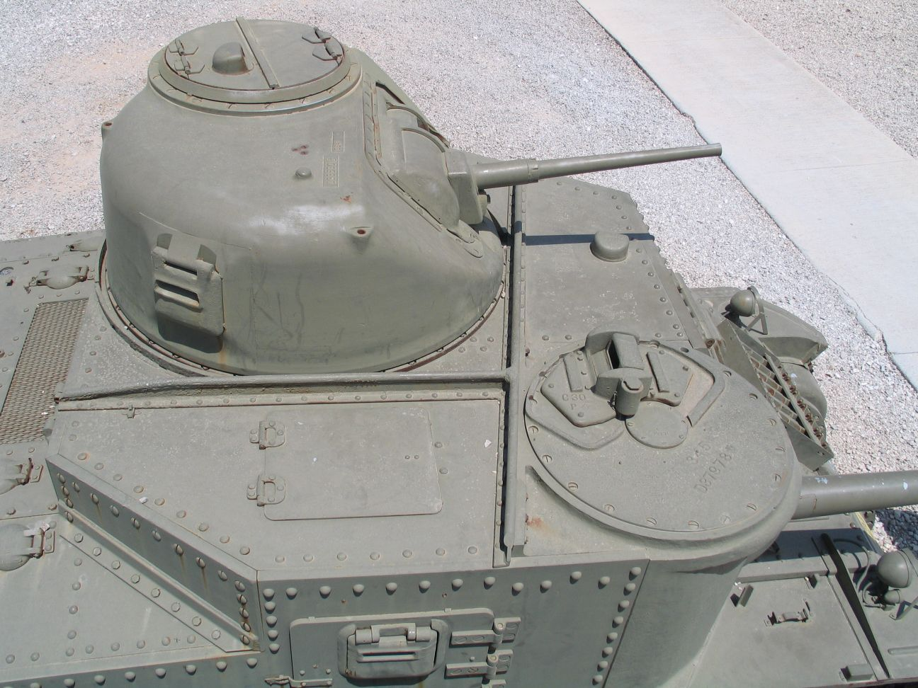 M3 Lee medium tank in Yad la-Shiryon Museum, Israel.